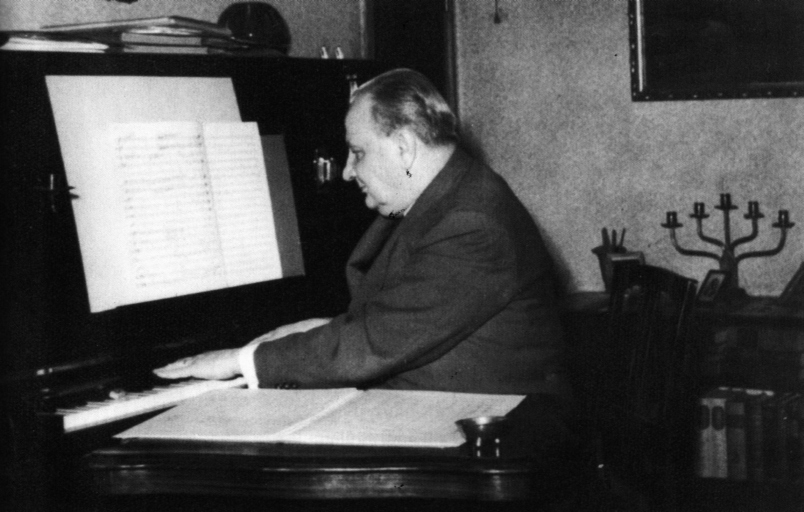 Photograph of the Finnish composer Lauri Ikonen (1888–1966).